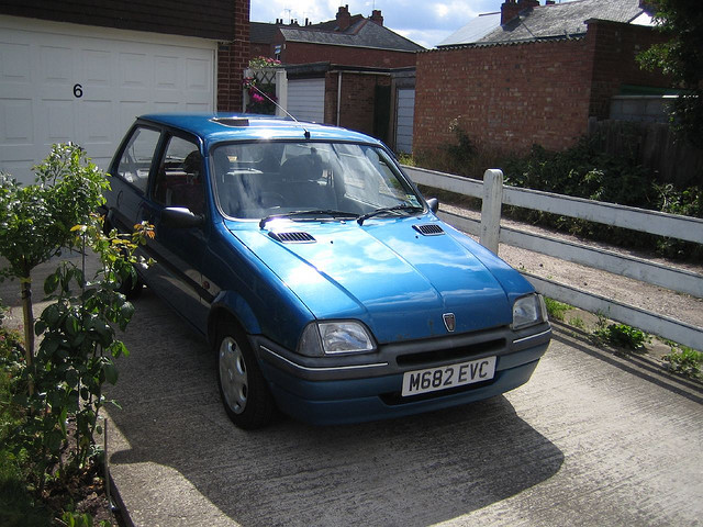 A 1994-95 (M reg) Rover Metro Rio (called the Rover 100 series outside UK)